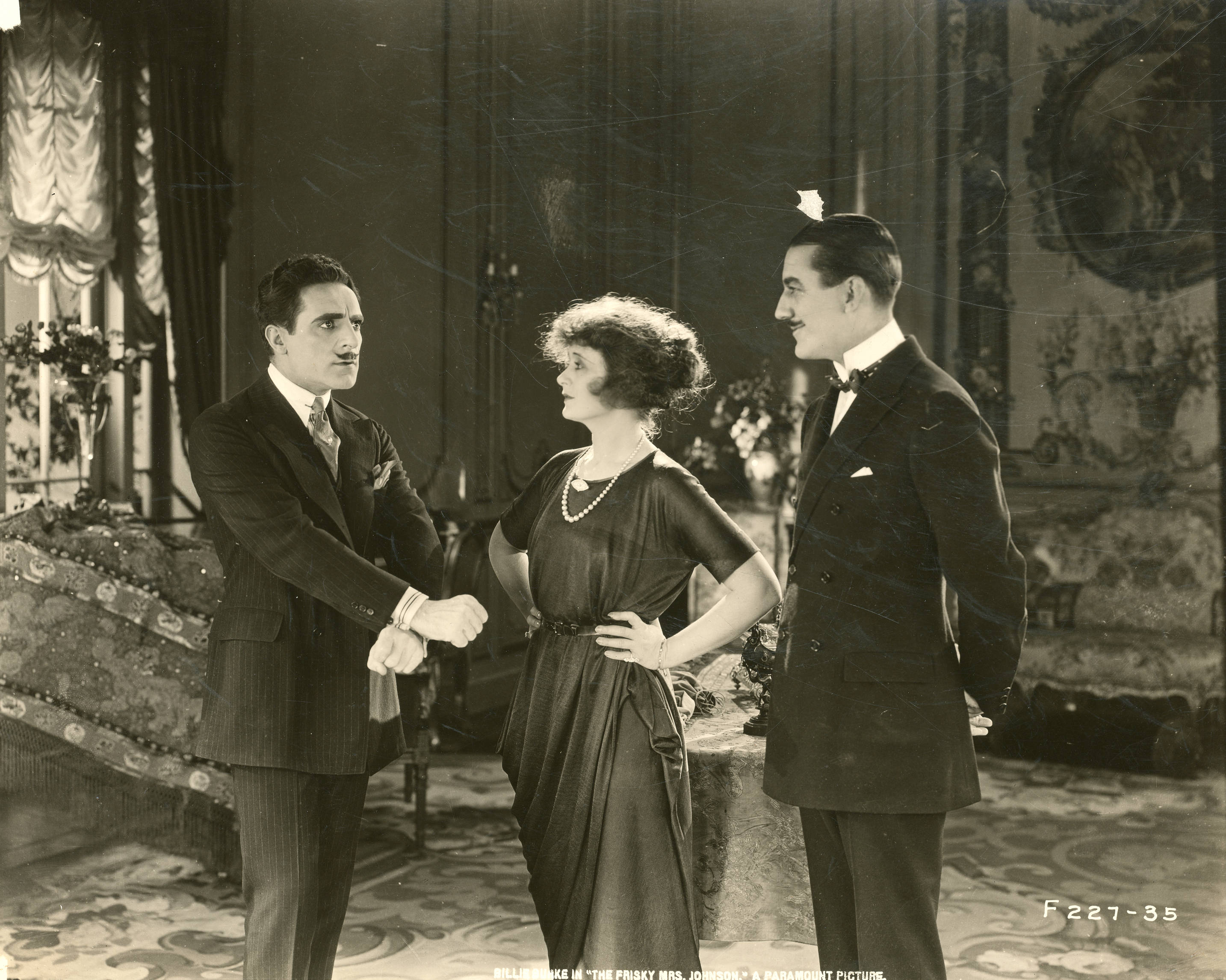 A scene from the American comedy film The Frisky Mrs. Johnson (1920), with Billie Burke. Subjects: motion pictures, actresses